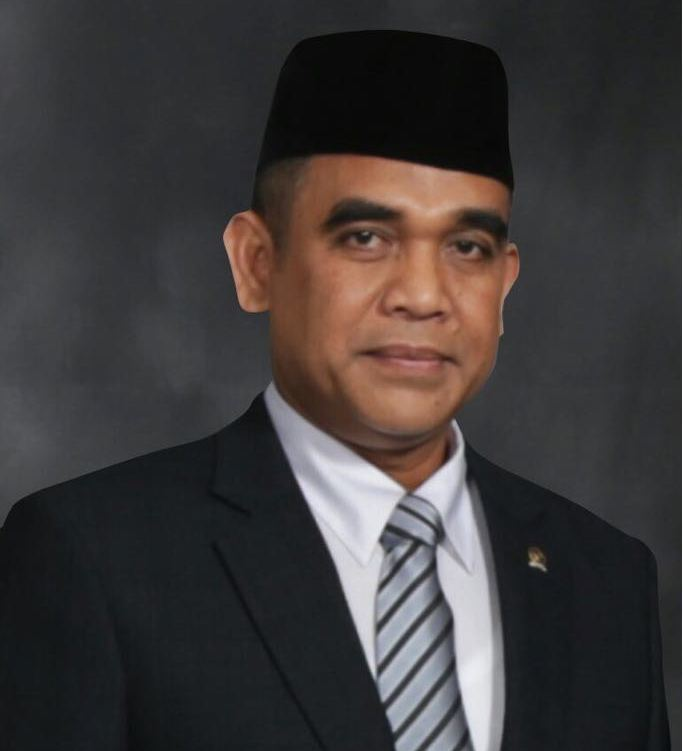 Ahmad Muzani as Vice Speaker of People's Consultative Assembly of the Republic of Indonesia